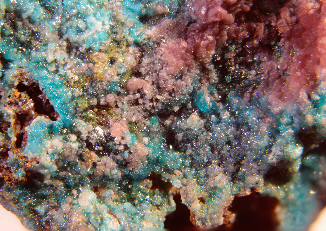 Alfredopetrovite, Ahlfeldite, Chalcomenite Locality: El Dragón Mine, Quijarro Province, Potosi Department, Bolivia Size: 1.3 cm × 0.7 cm × 0.8 cm Description: Druse of tiny alfredopetrovite crystals, colorless to greyish tone, coating over blue chalcomenite and pink ahlfeldite. Some areas, with no colored background minerals, let us to see perfectly crystals. You can also observe face reflections of this extremely rare species. Alfredopetrovite is the first aluminium selenite mineral. On a kruťait-penroseite matrix.